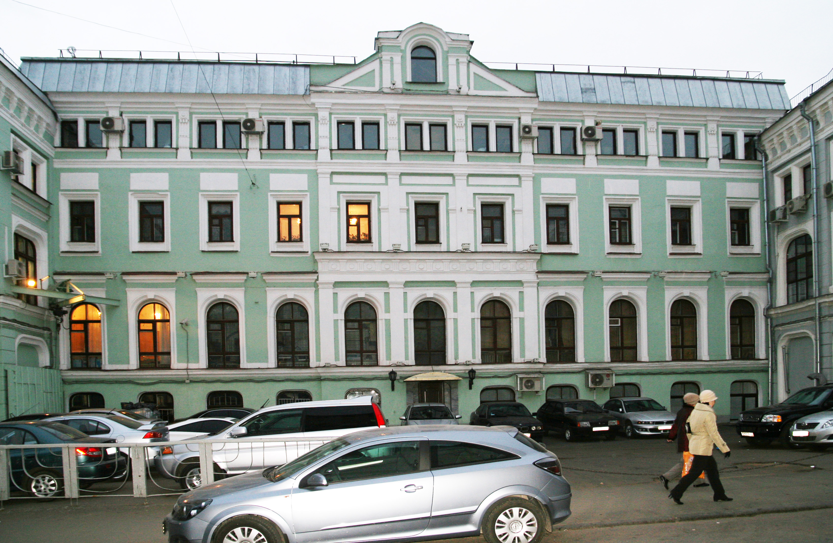 Moscow, Kuznetsky Most Street 2